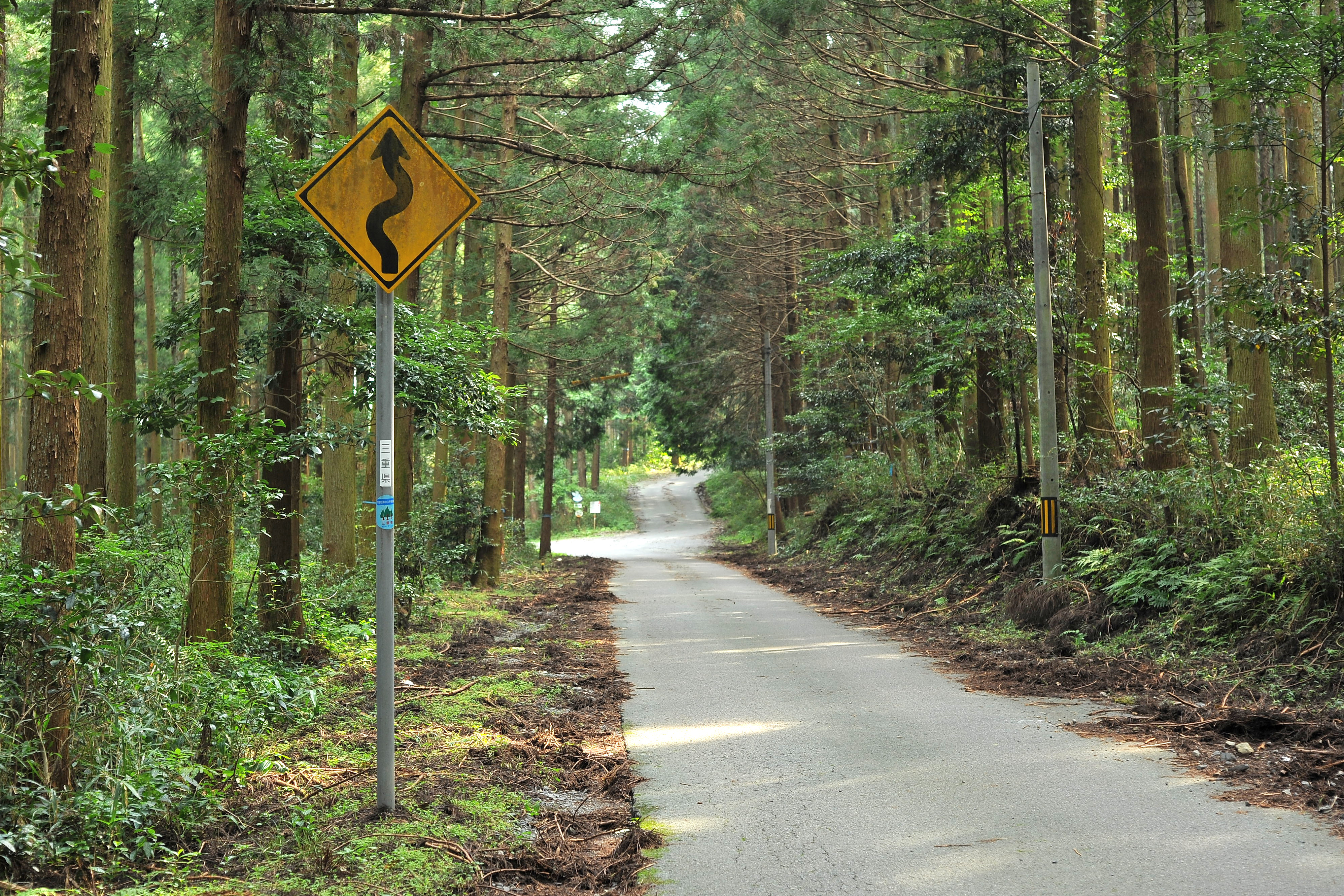 Mie Prefectural Route 752, Komono, Mie